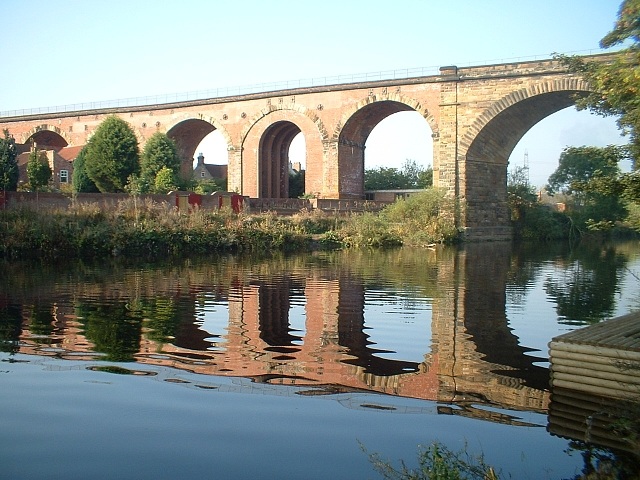 This is a photo of the viaduct Yarm. It was taken by Andrew Duffell in 2003.